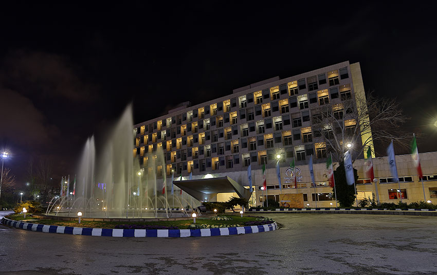 هتل هما 1 مشهد (هایت سایق)